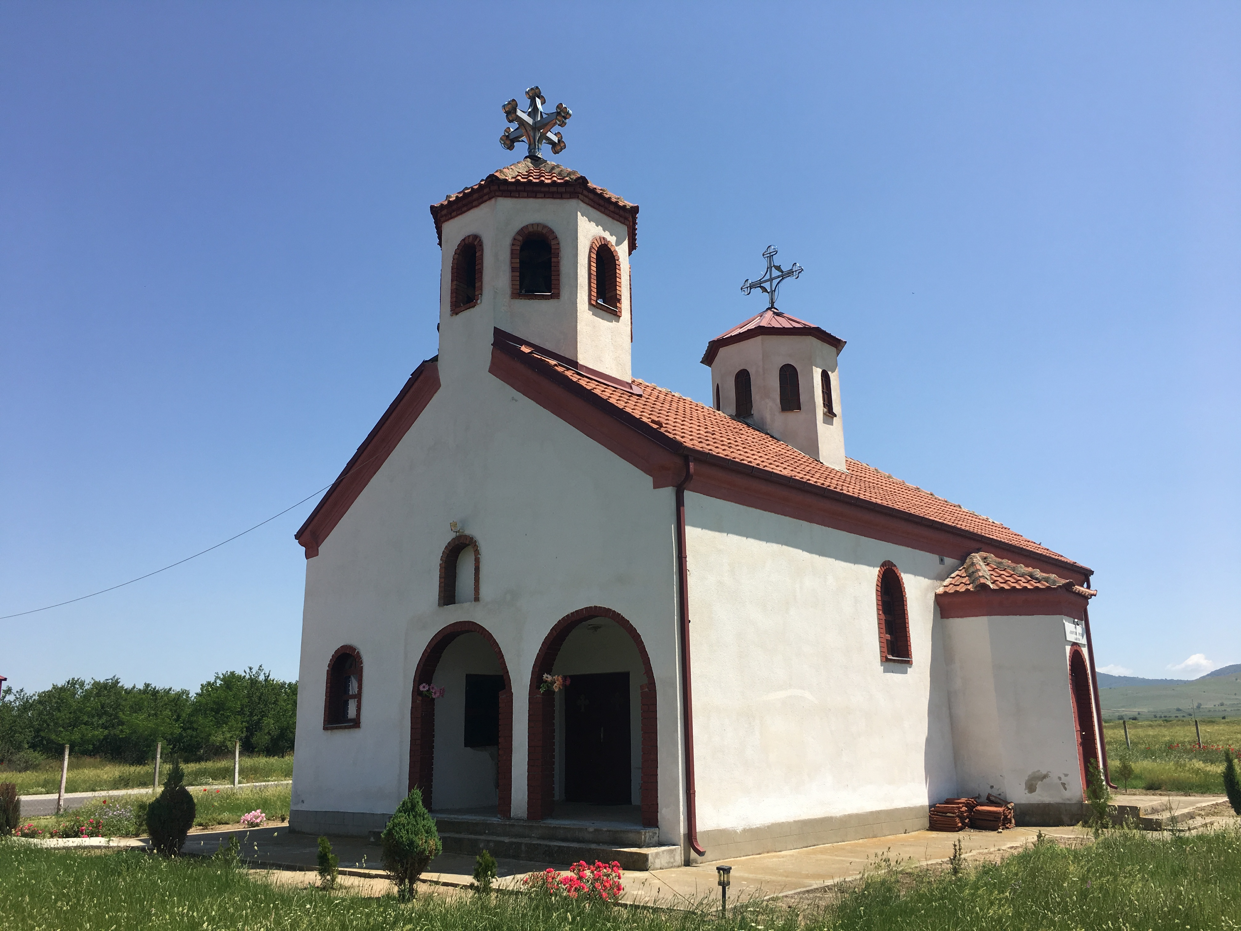 Church of the Resurrection of Christ in the village of Dalbegovci